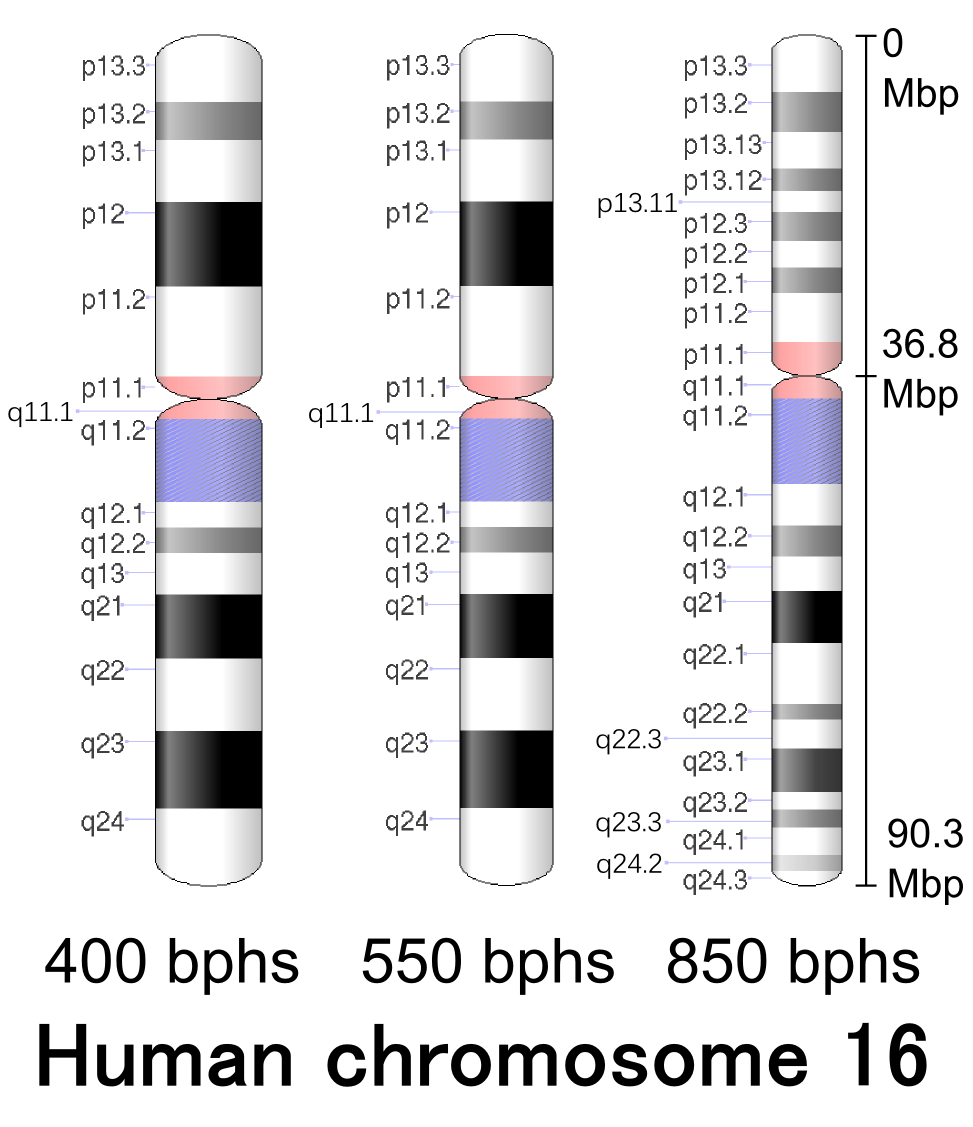 Ideograms of G-band pattern of human chromosome 16 in three different resolutions (400, 550 and 850 bphs, bands per haploid set). Different resolutions are corresponding to different band patterns observed through mitotic phase (about relation between banding resolution and mitotic phase, see, for example, Fig.3 in W Sethakulvichaia (2012)). Legend: Black and gray is Giemsa positive. Red is centromere. Light blue is variable region. Dark blue is stalk. At the right, centromere position (center) and q arm terminus position (bottom), counted from p arm terminus (top) in Mbp (mega base pairs), are labeled. Physical length (sometimes referred as "absolute length") is not labeled. Because physical length of chromosomes vary while mitosis. (typical human chromosome physical length is in the order of from several micrometers to ten and several micrometers. See, for example, Category:Human chromosome images with scale bars.).